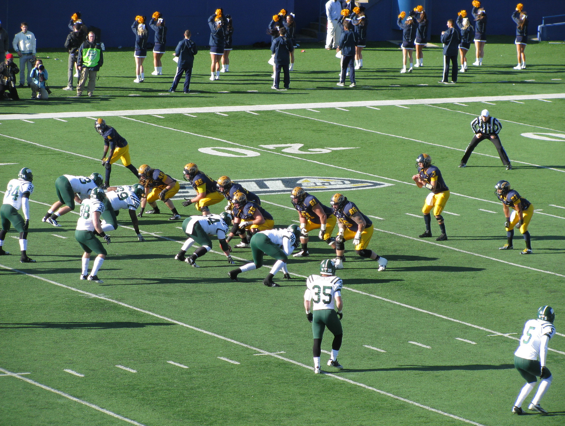 The Kent State Golden Flashes offense lines up against the Ohio Bobcats defense at Dix Stadium in Kent, Ohio. The Flashes won the game 28-6 to clinch an 8-0 regular season in MAC play for the first time in school history.